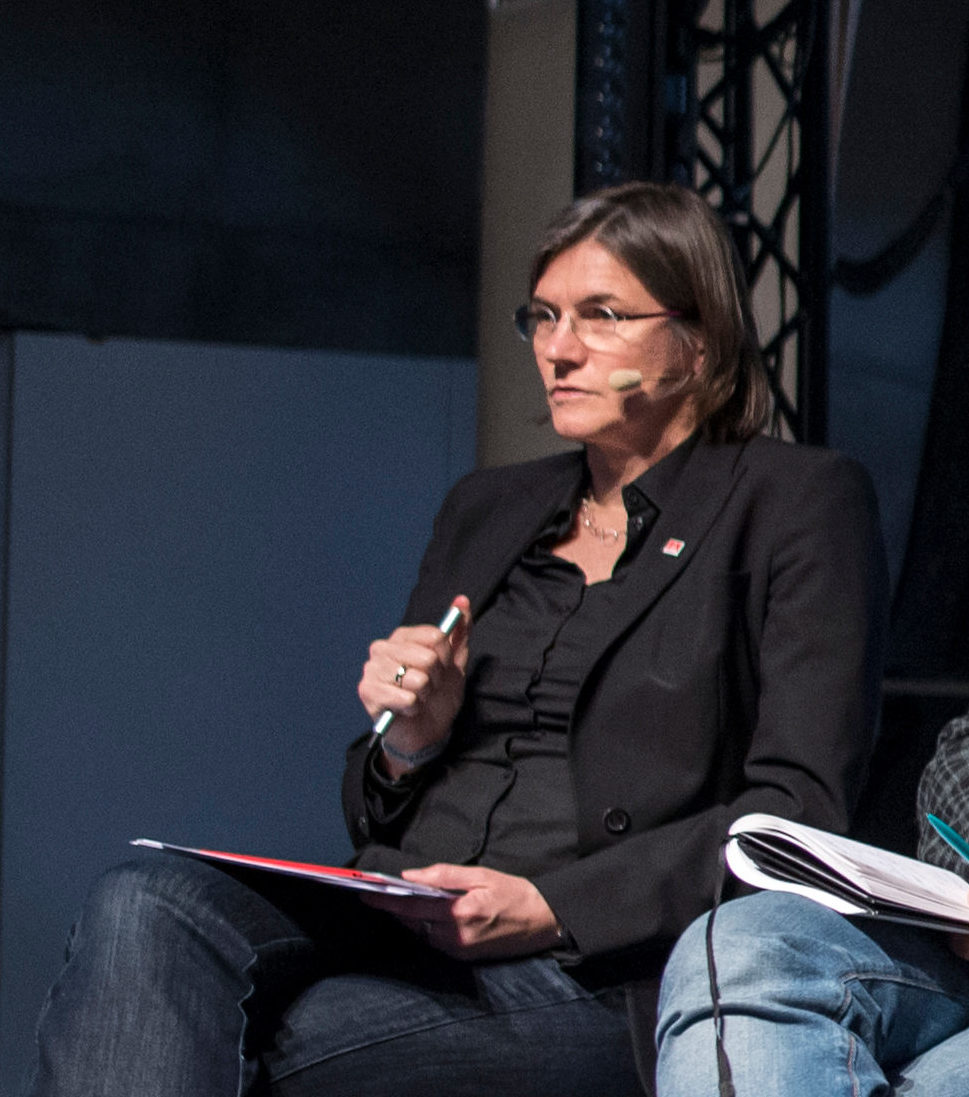 Christiane Benner, Sarah T. Roberts, Max Hoppenstedt, Steven Hill mit „Crowdworking behind the screen - Clickworking & Labor Rights“ am 03.05.2016 auf der re:publica in Berlin. Foto: re:publica/Gregor Fischer CC BY 2.0